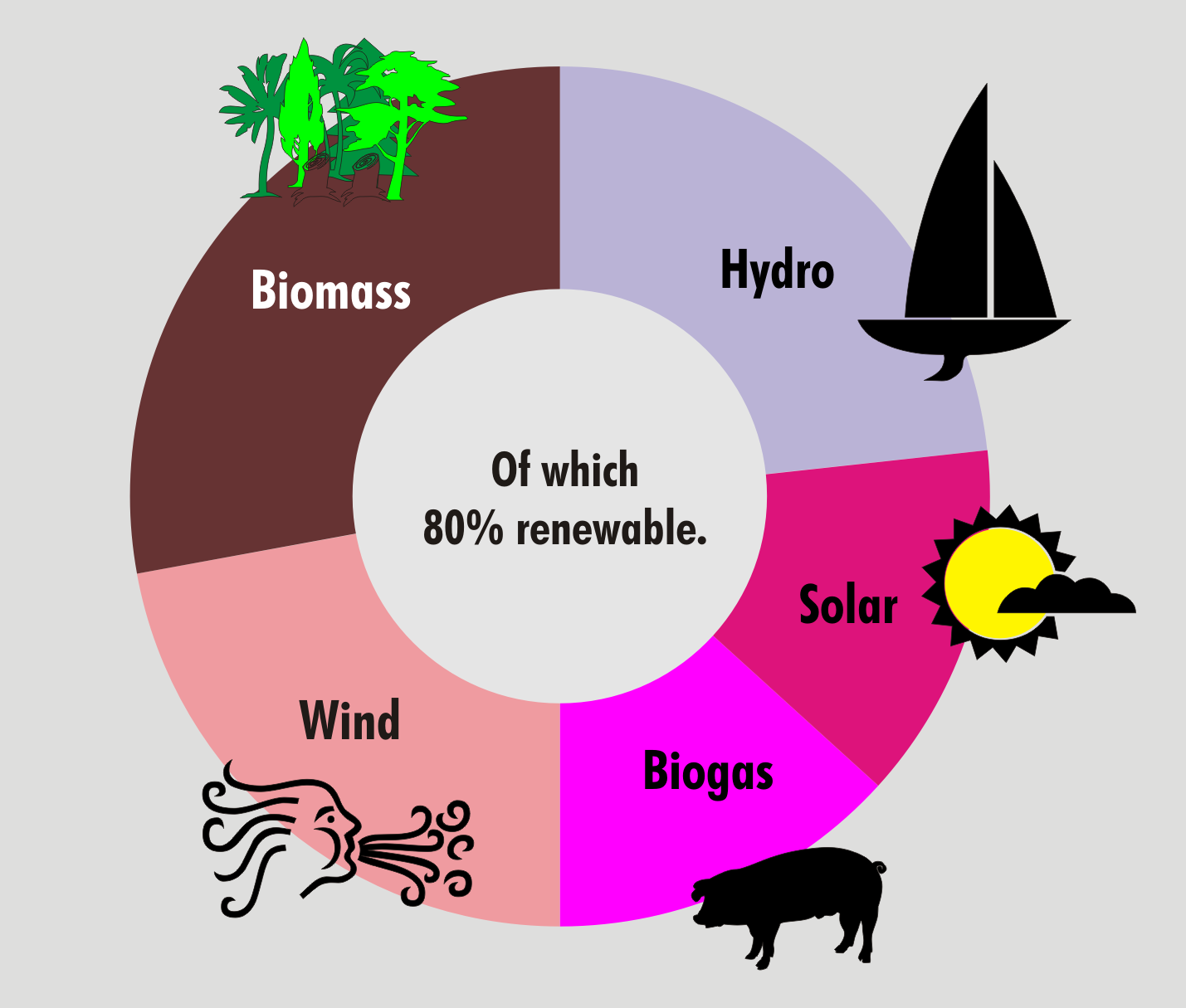 Example of a donut chart for illustration purposes